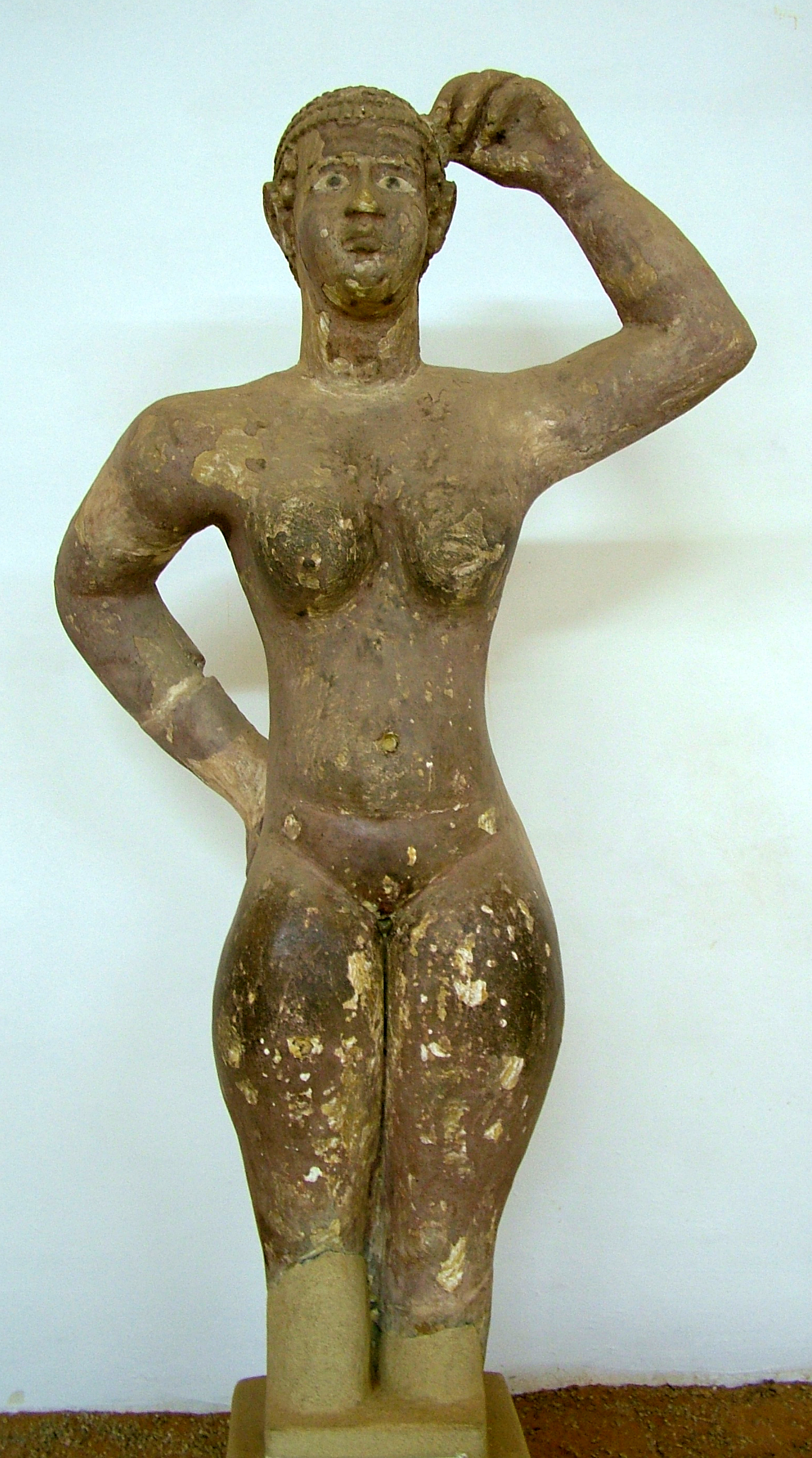 Meroitic statue found in the "Water Sanctuary" in Meroe, Nubia, Sudan (currently in Khartoum, National Museum)